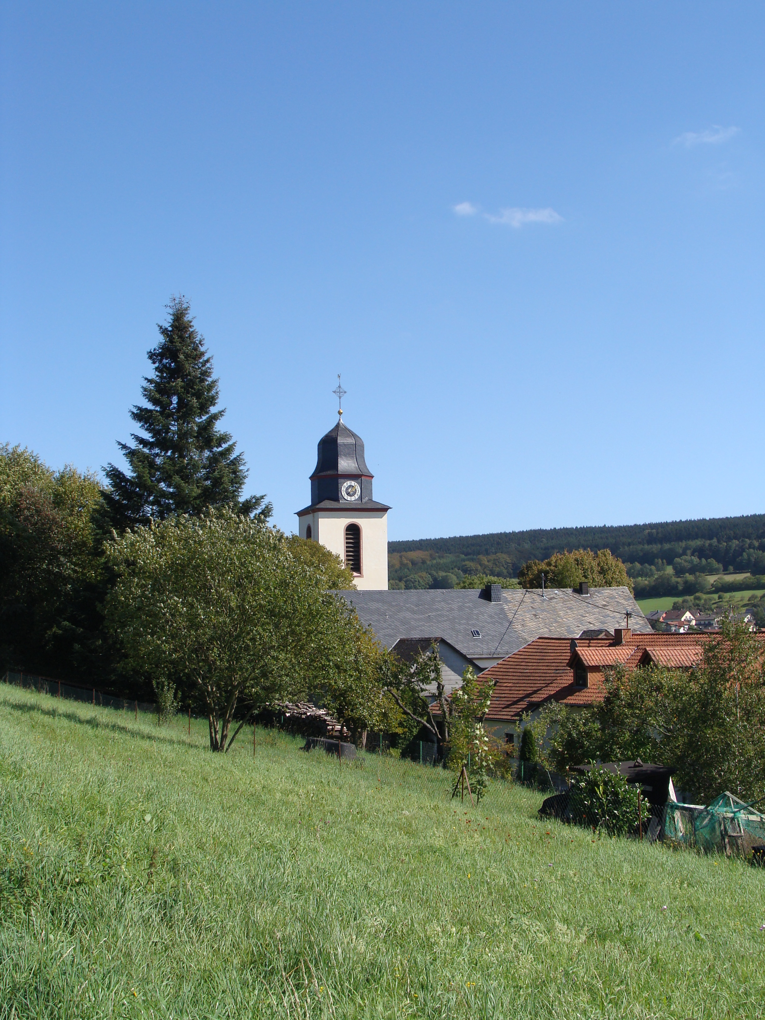 Catholic church in Greimerath, Trier-Saarburg, Rhineland-Palatinate, Germany.